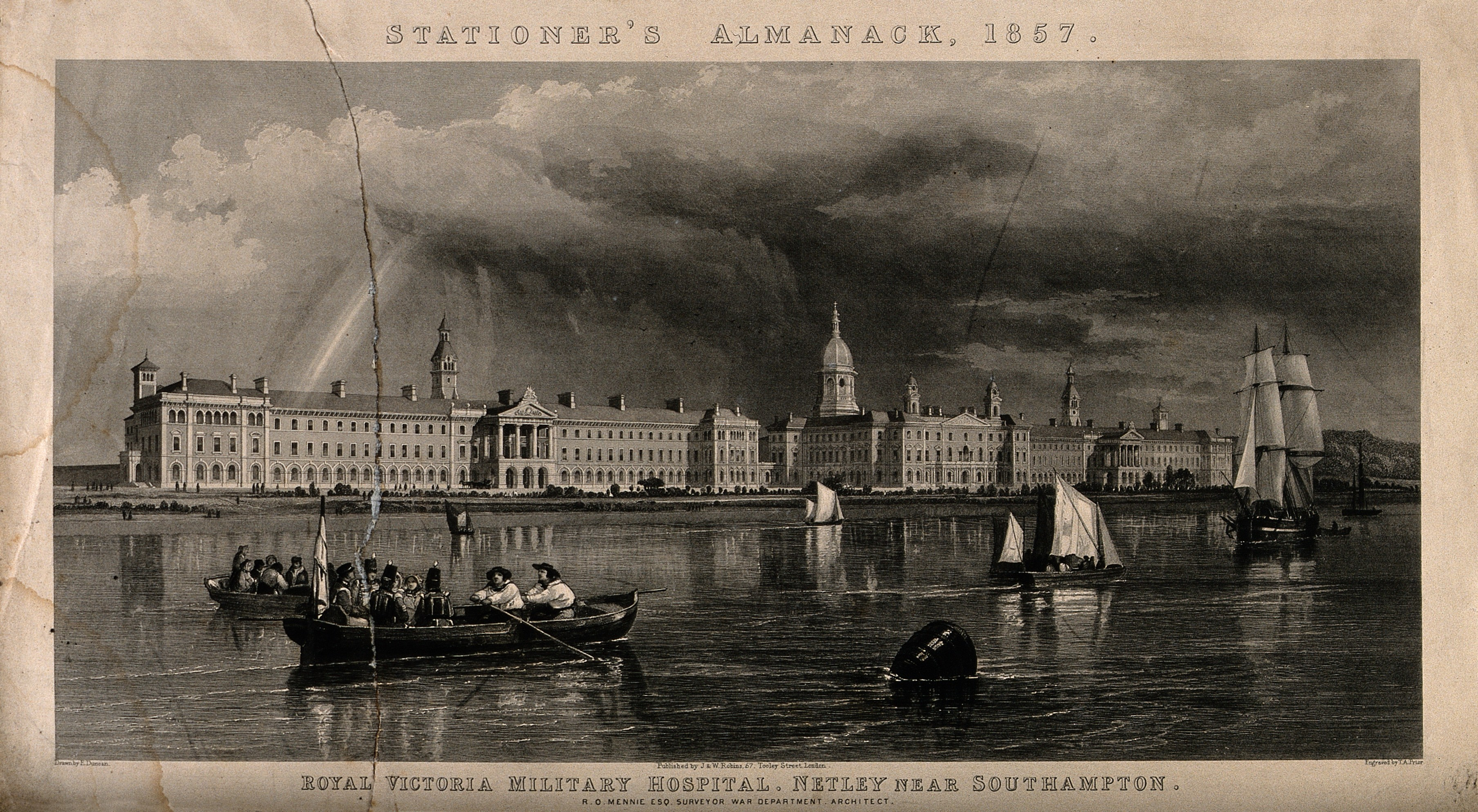 Royal Victoria Military Hospital, Netley, Hampshire: from the harbour. Line engraving by T.A. Prior, 1857, after E. Duncan. Iconographic Collections Keywords: Thomas Abiel Prior; R.O. Mennie; Edward Duncan; victoria military hospital; netley